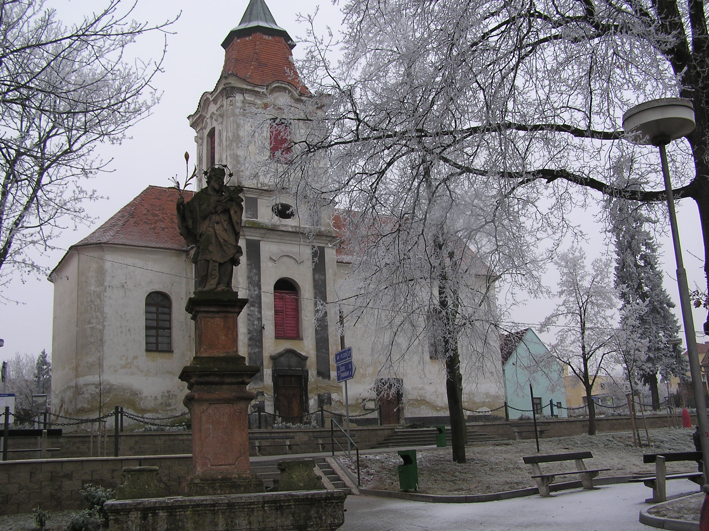 Statue of Saint John Nepomucenses in Blšany